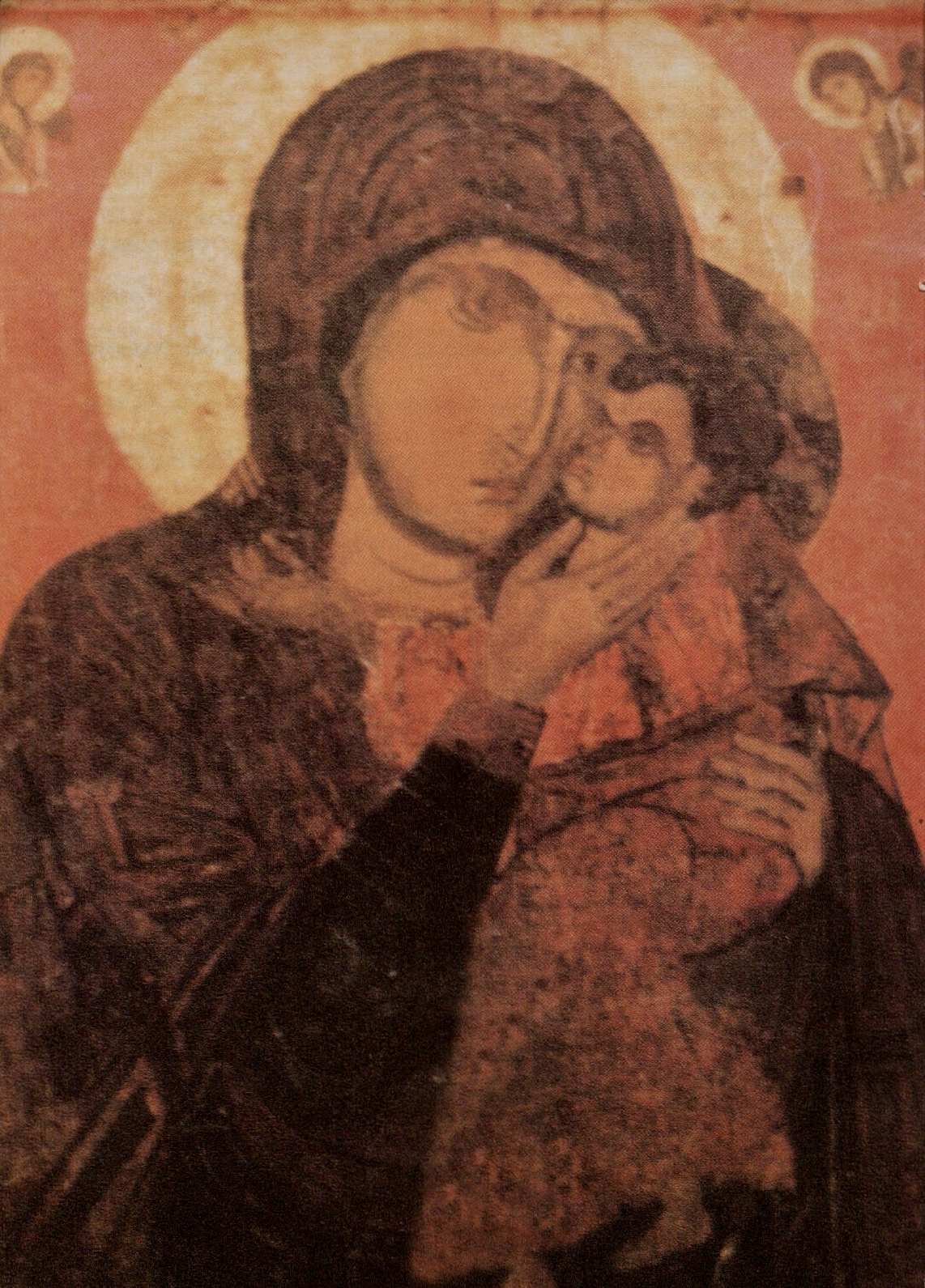 Icon of Panagia glykofiloussa, the sweet kissing Madonna. From the church of Panagia Episcope on the Greek island of Santorini. This icon in the byzantine style has been dated to the 12th century